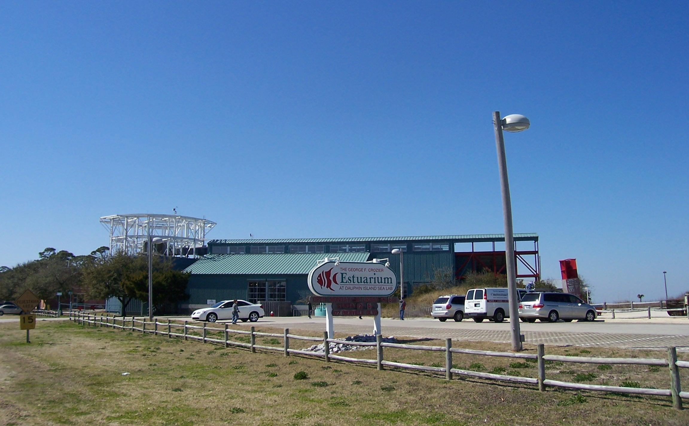 A shot of the George F. Crozier Estuarium at Dauphin Island Sea Lab. The sign supports, light pole and the large red and white buoy are not plumb, making the whole photo look slanted. Sky cropped from image.